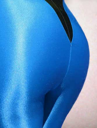 A piece of blue fabric made of Lycra